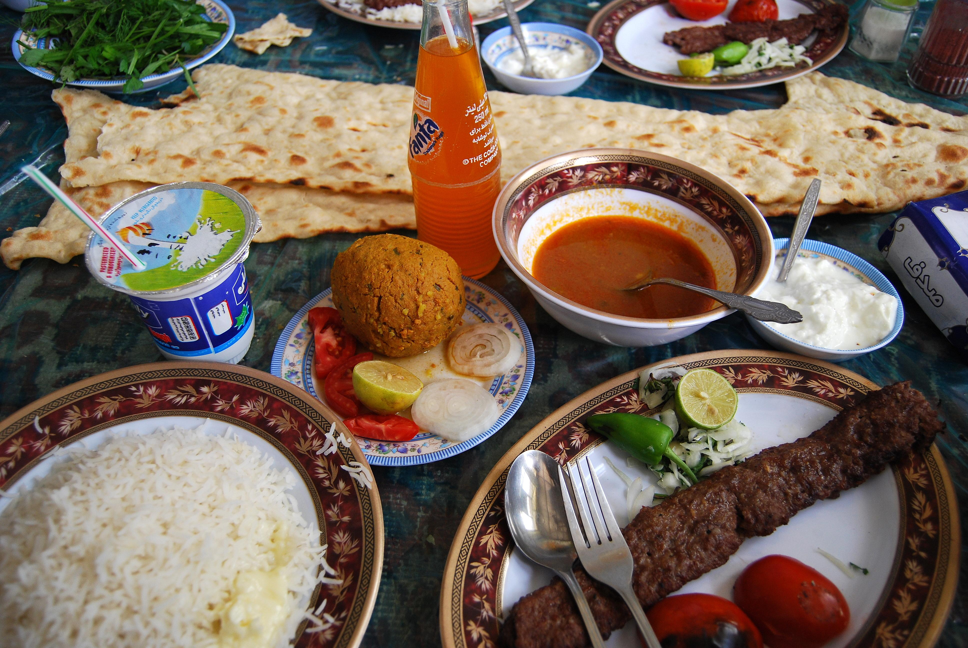 Two Iranian foods.